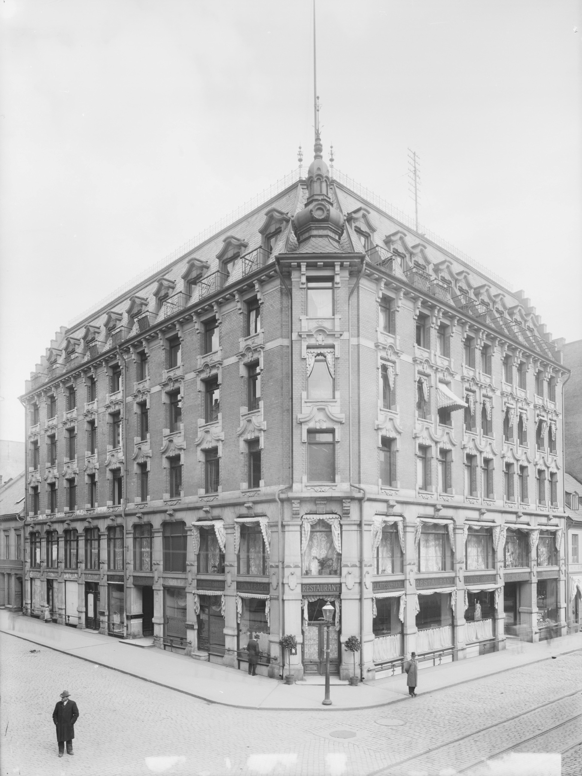 Kongens gate 14, Oslo, between 1900 and 1905